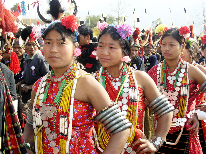 Sumi dancer girls during Naga Traditional New Year Festival 2007, Lahe, Sagaing, Myanmar မြန်မာဘာသာ: ၂၀၀၇ ခုနှစ်က မြန်မာနိုင်ငံ၊ စစ်ကိုင်းတိုင်း၊ လဟယ်မြို့တွင် ကျင်းပခဲ့သော နာဂရိုးရာနှစ်သစ်ကူးပွဲတော်တွင် ဆူမီနာဂမျိုးနွယ် ယိမ်းသမများကို တွေ့ရစဉ်